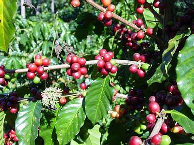 Arabi Coffee of Anakkara